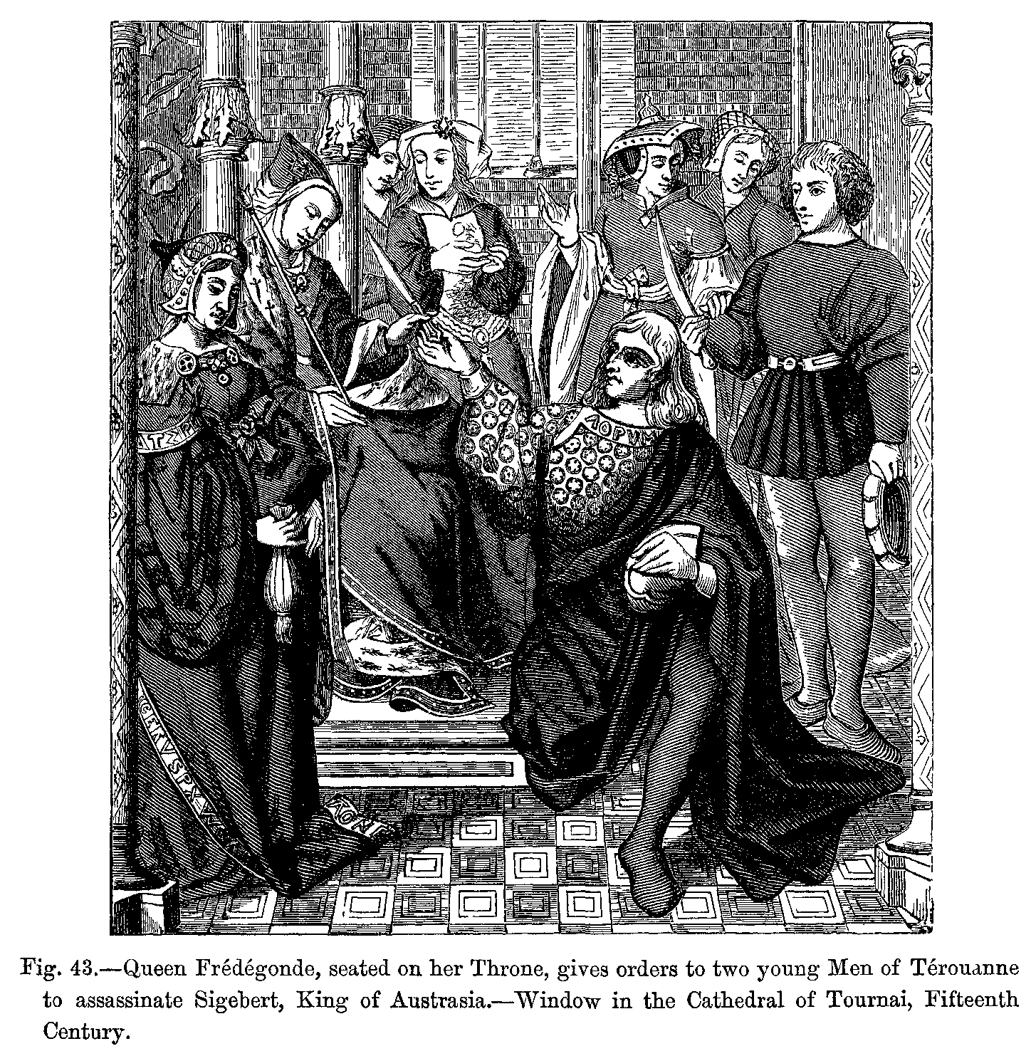 Queen Frédégonde, seated on her Throne, gives orders to two young Men of Térouanne to assassinate Sigebert, King of Austrasia.--Window in the Cathedral of Tournai, Fifteenth Century.